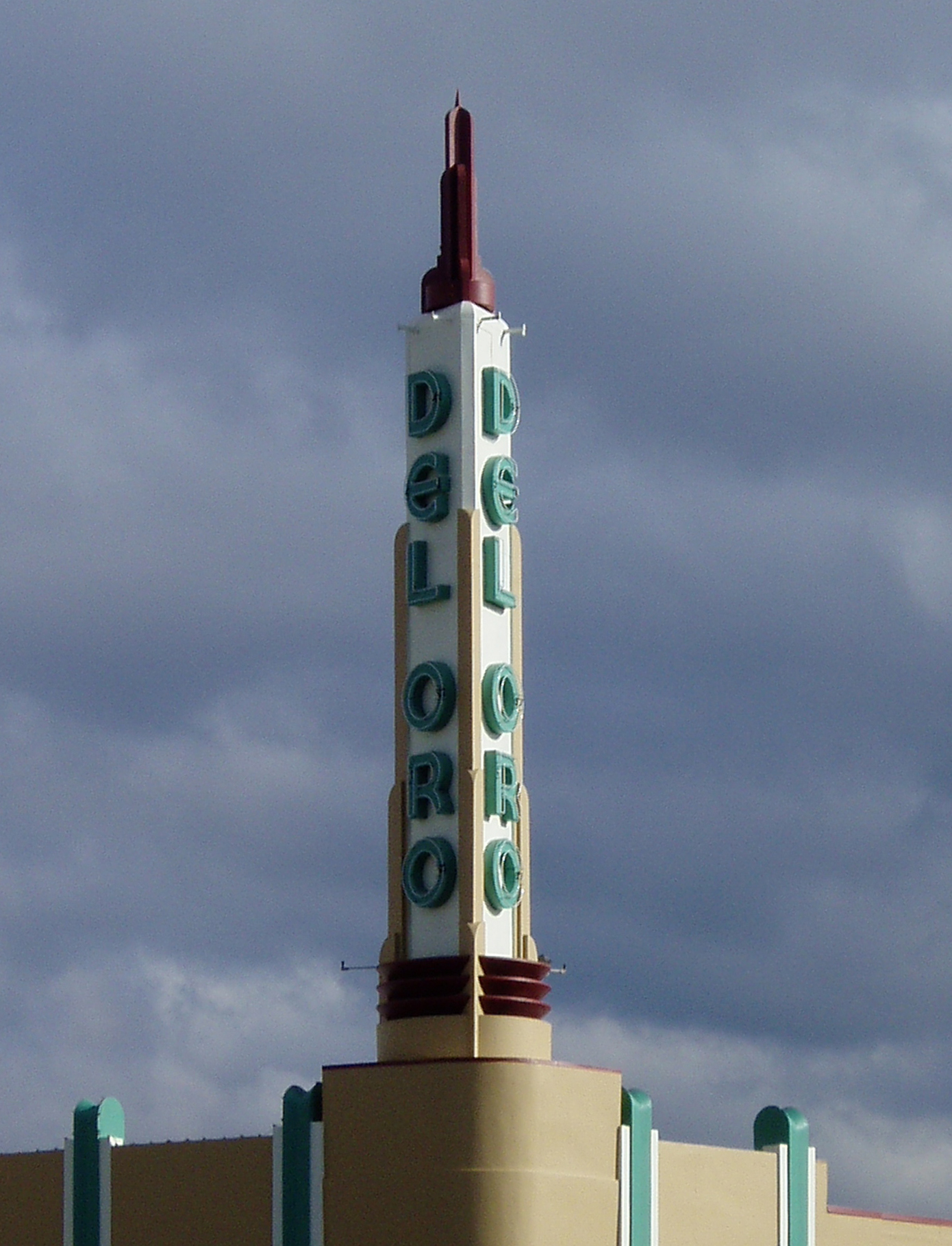 A spire atop the Del Oro Theatre in Downtown Grass Valley